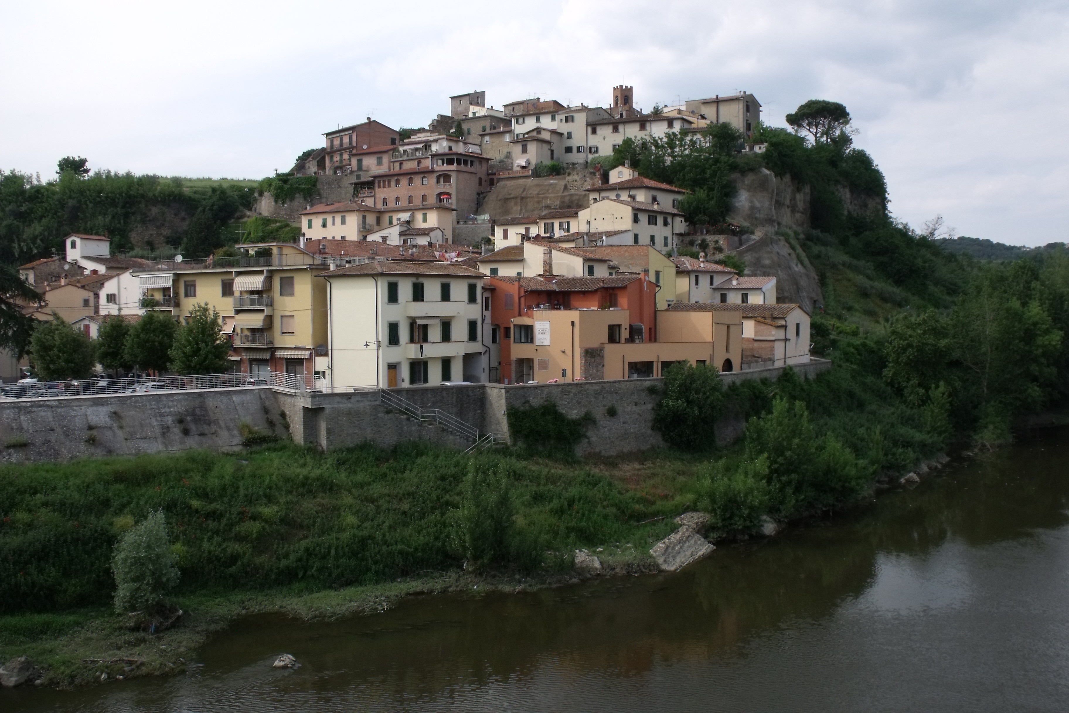 Panorama of Capraia on the Arno river, Capraia e Limite, Province of Florence, Tuscany, Italy